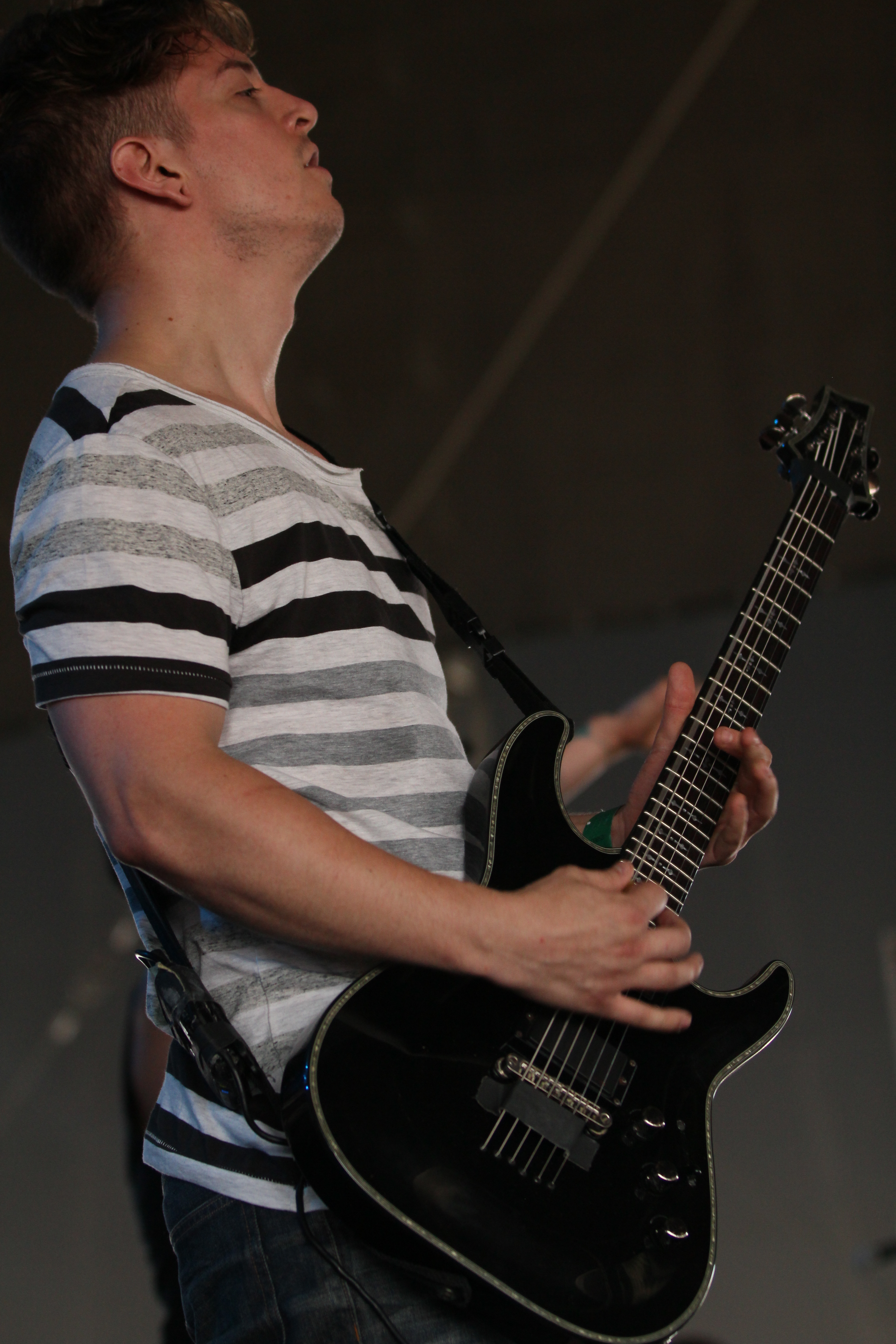 The American metalcore band For the Fallen Dreams at the With Full Force festival 2014 in Roitzschjora/Germany